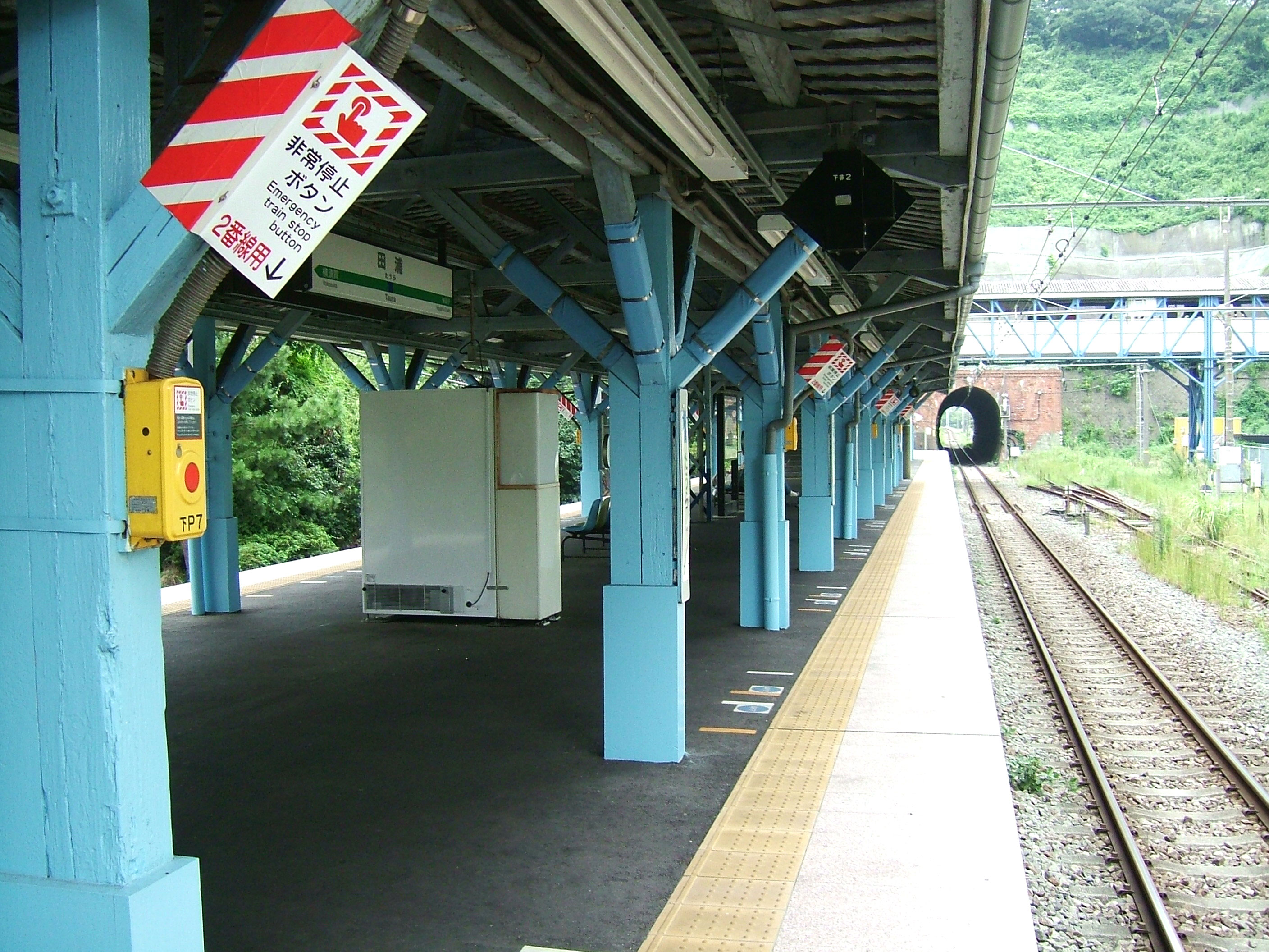 Taura Station platform (East Japan Railway Yokosuka Line)